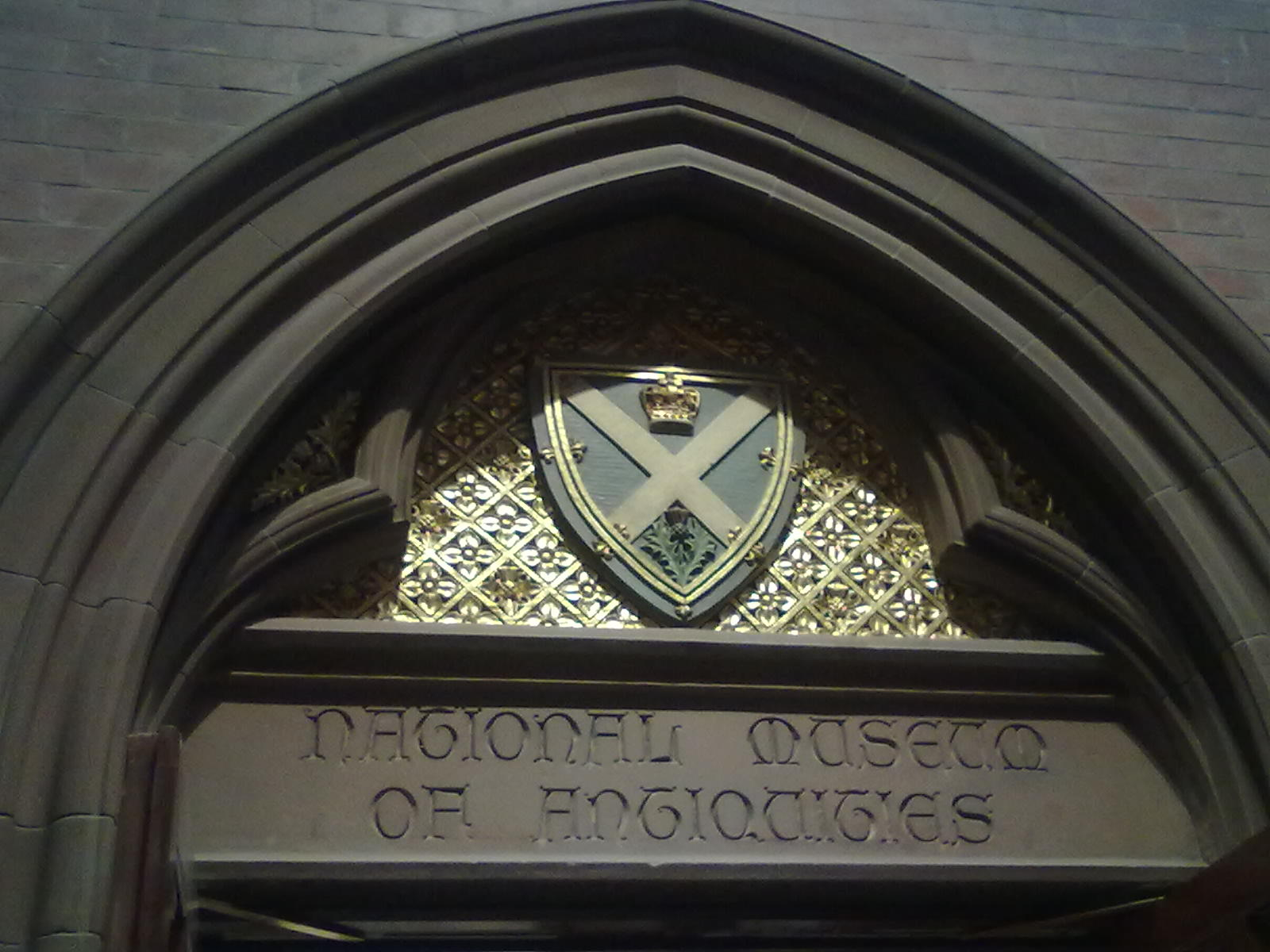 Scottish National Portrait Gallery - crest above Society of Antiquaries entrance